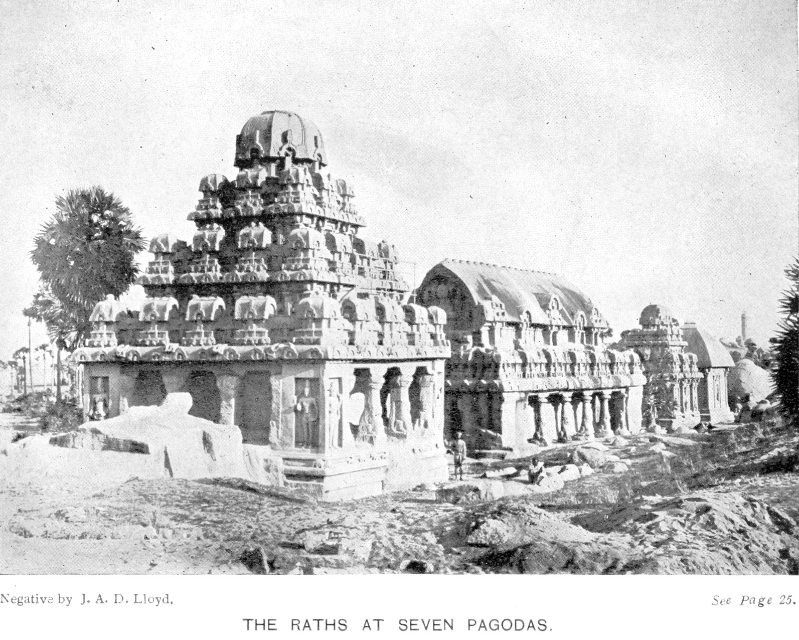 Raths Seven Pagodas